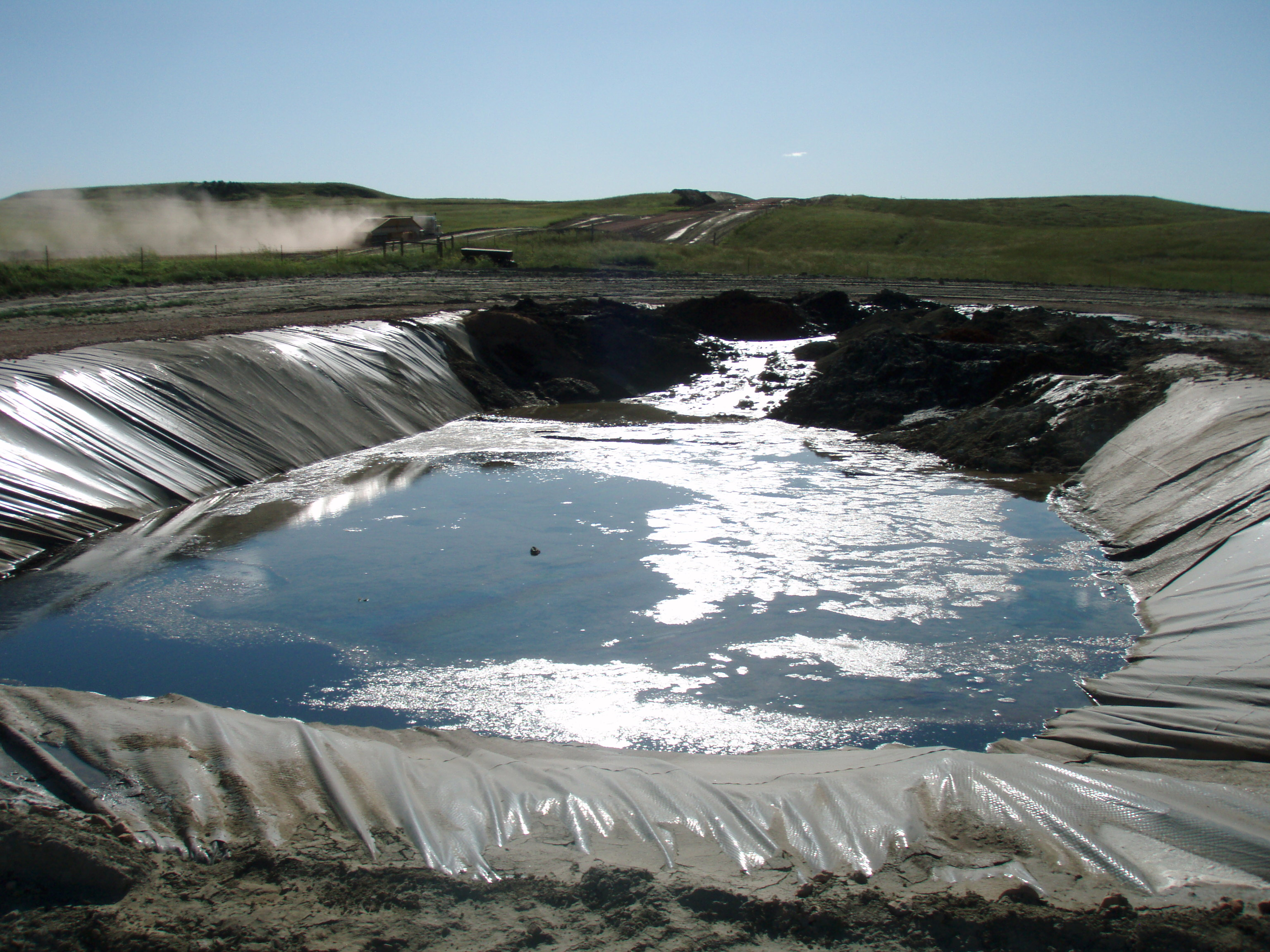 Mud Pit in North Dakota drilling the Bakken Formation